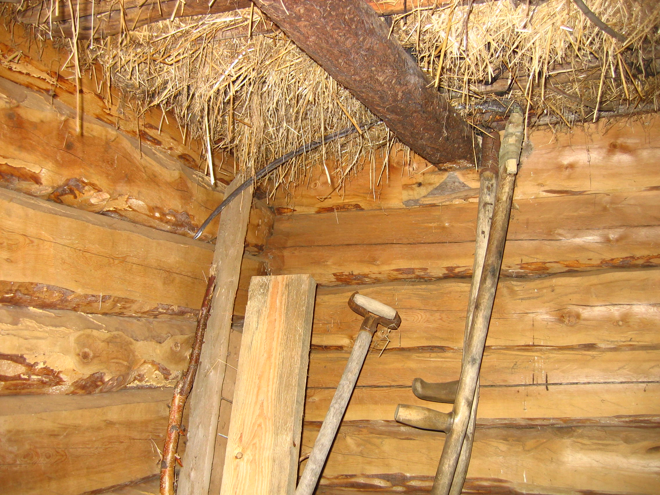 Scythes in a barn near Saari-Sorsua in Utajärvi, Finland